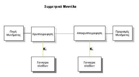 Symmetrical cryptosystem